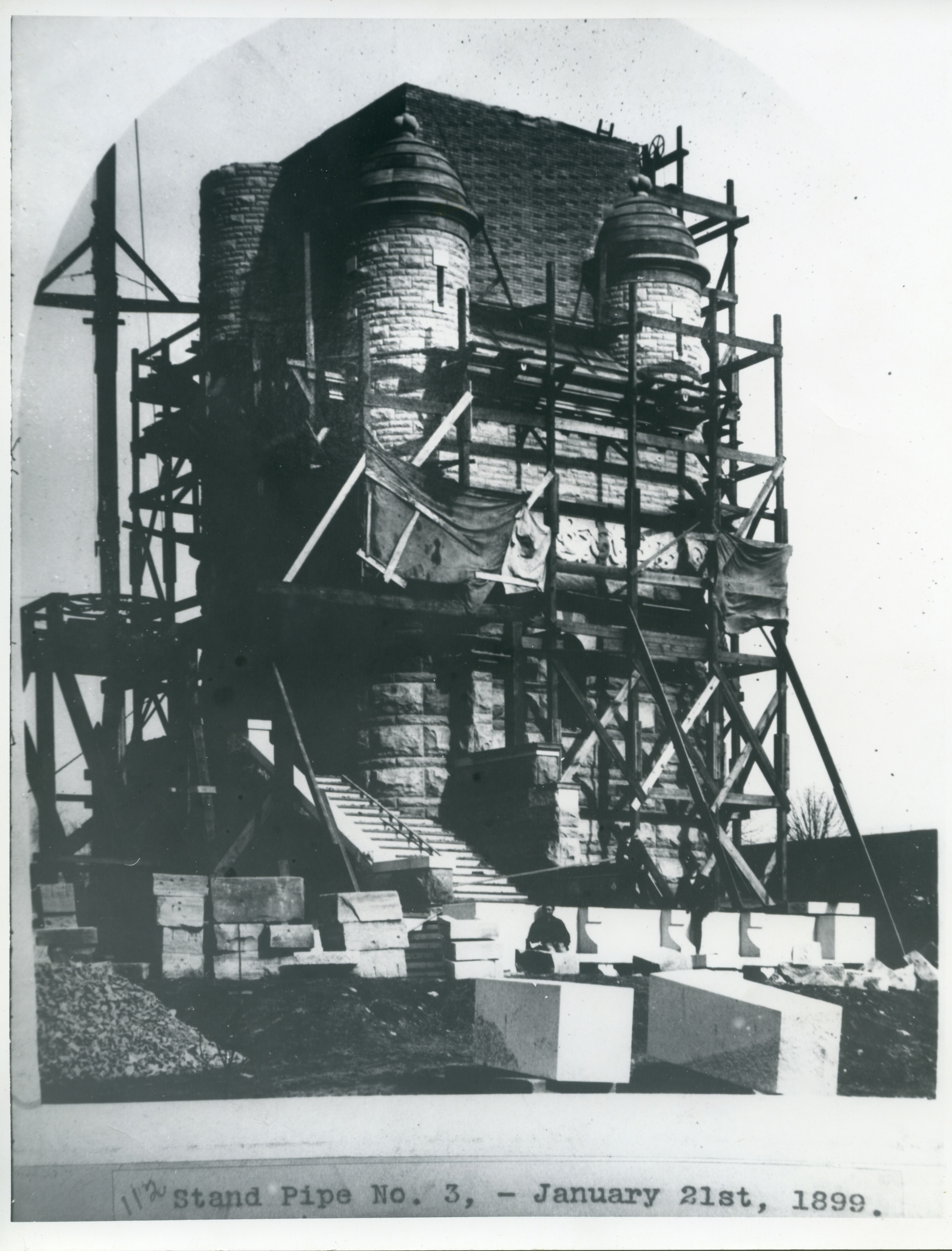 Title: "Stand Pipe No. 3, - January 21st, 1899." (Compton Hill Water Tower under scaffolding during construction).